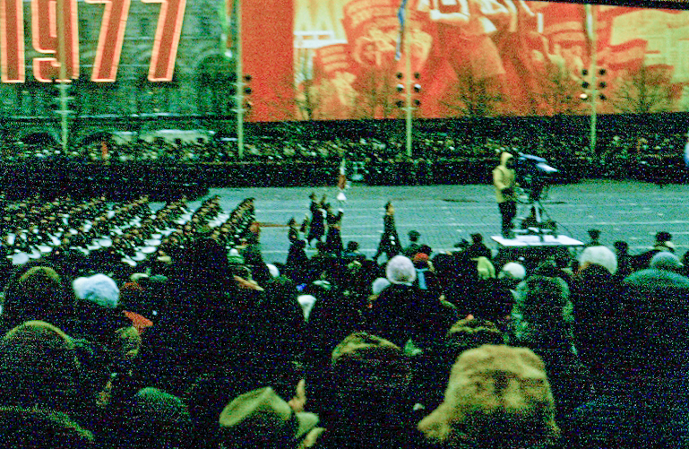 Official demonstration on 7 November 1977 on the Red Square in Moscow